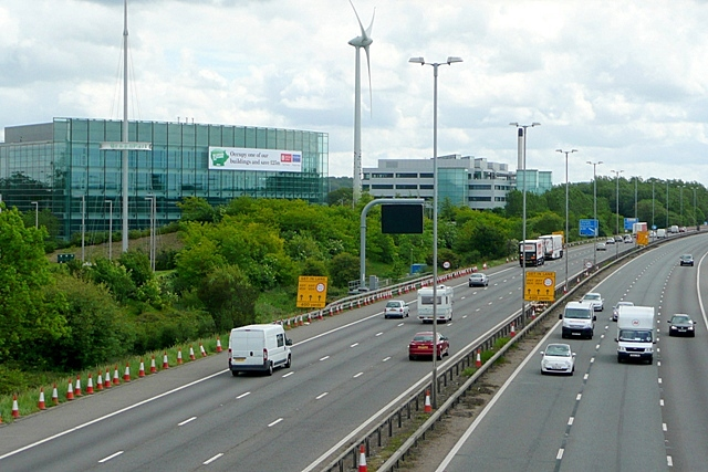 M4 near junction 11 This is looking eastbound towards junction 11, the Reading south junction. To the left is Green Park, a large office development managed by Prudential. As part of the development the wind turbine was erected, providing all of the electricity for itself and some of the surrounding area including Madjeski stadium. It is possibly the most visible wind turbine in England.